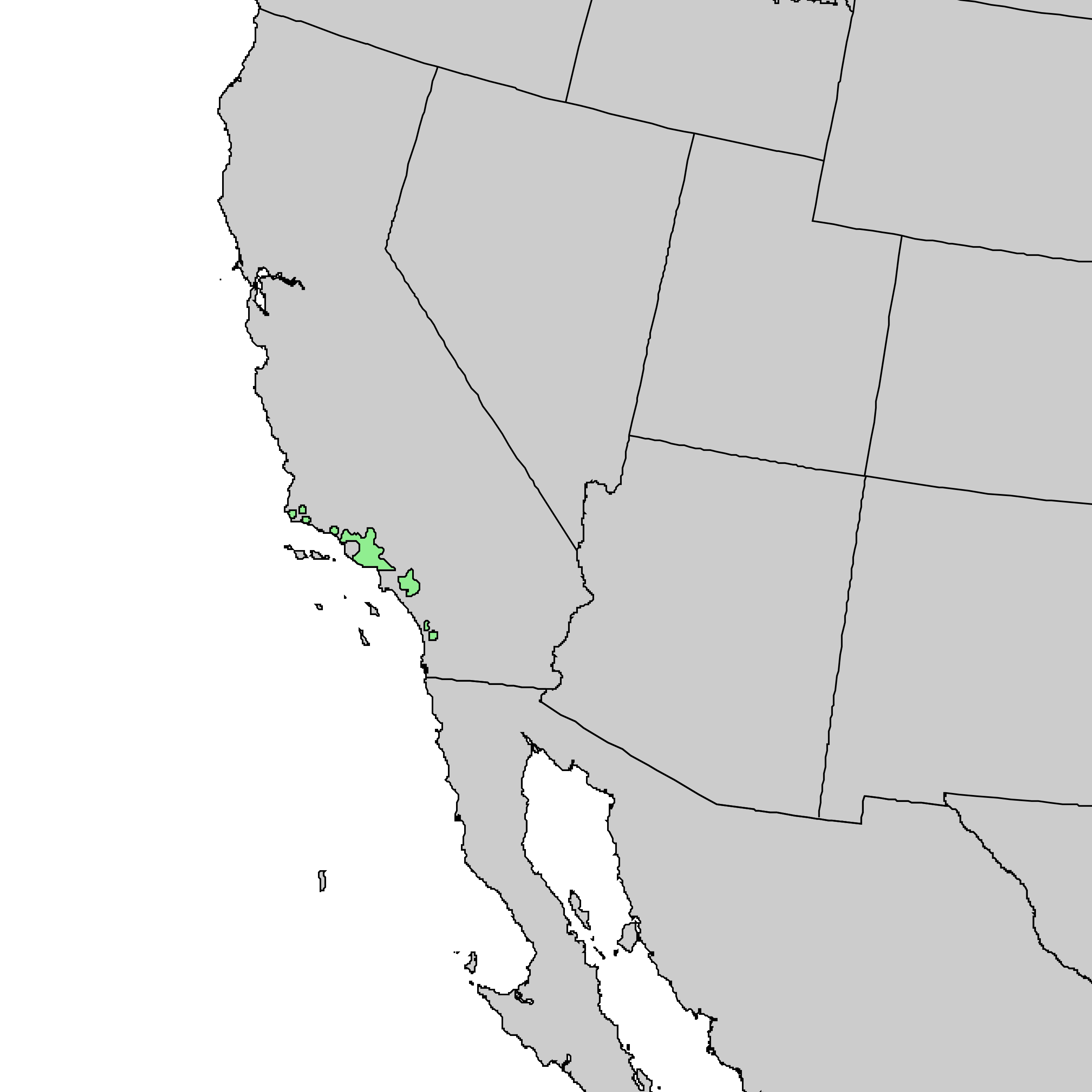 Natural distribution map for Juglans californica